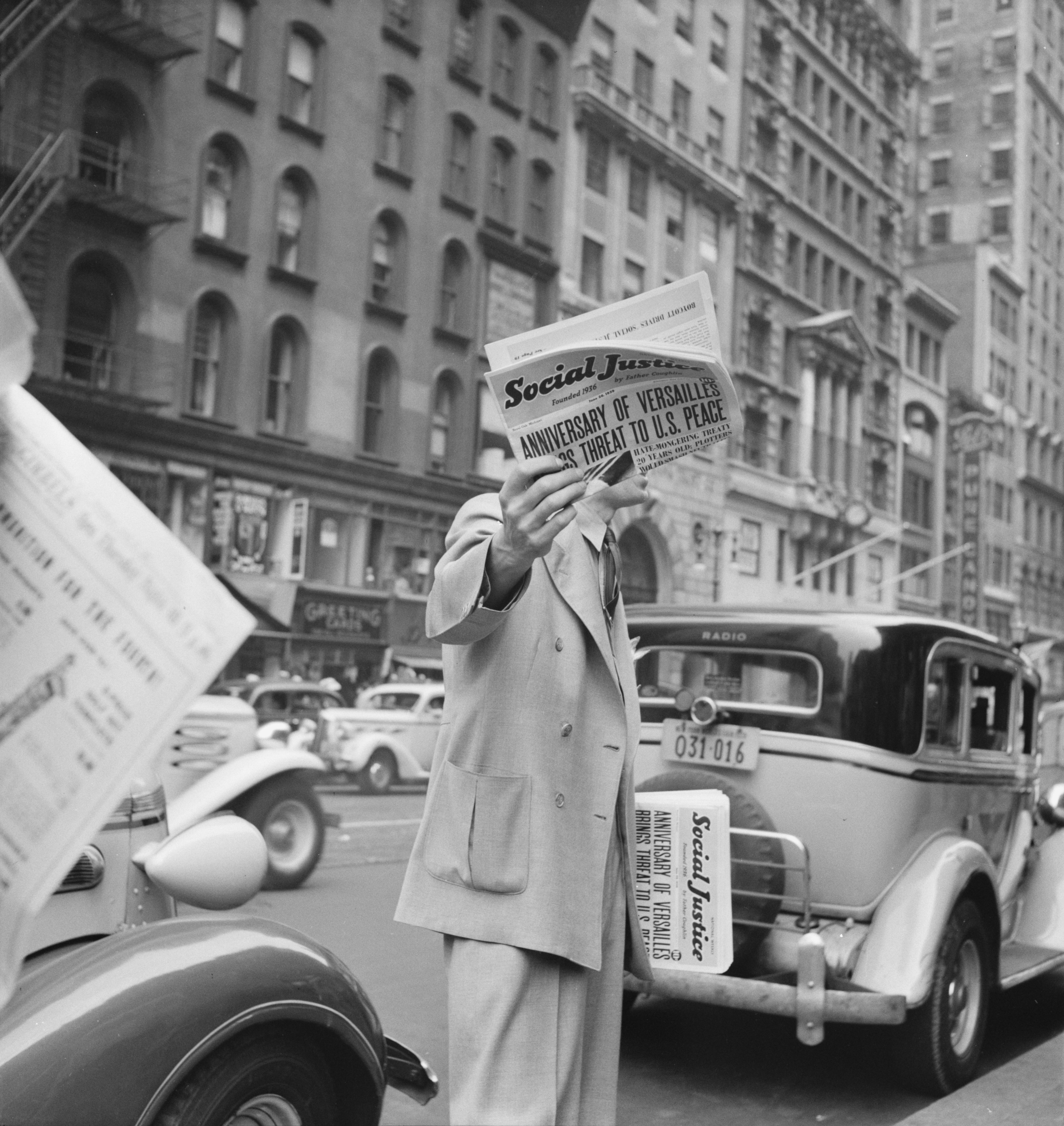 "Social Justice," founded by Father Coughlin, sold on important street corners and intersections. New York City Medium: 1 negative: nitrate; 2 1/4 × 2 1/4 inches or smaller.